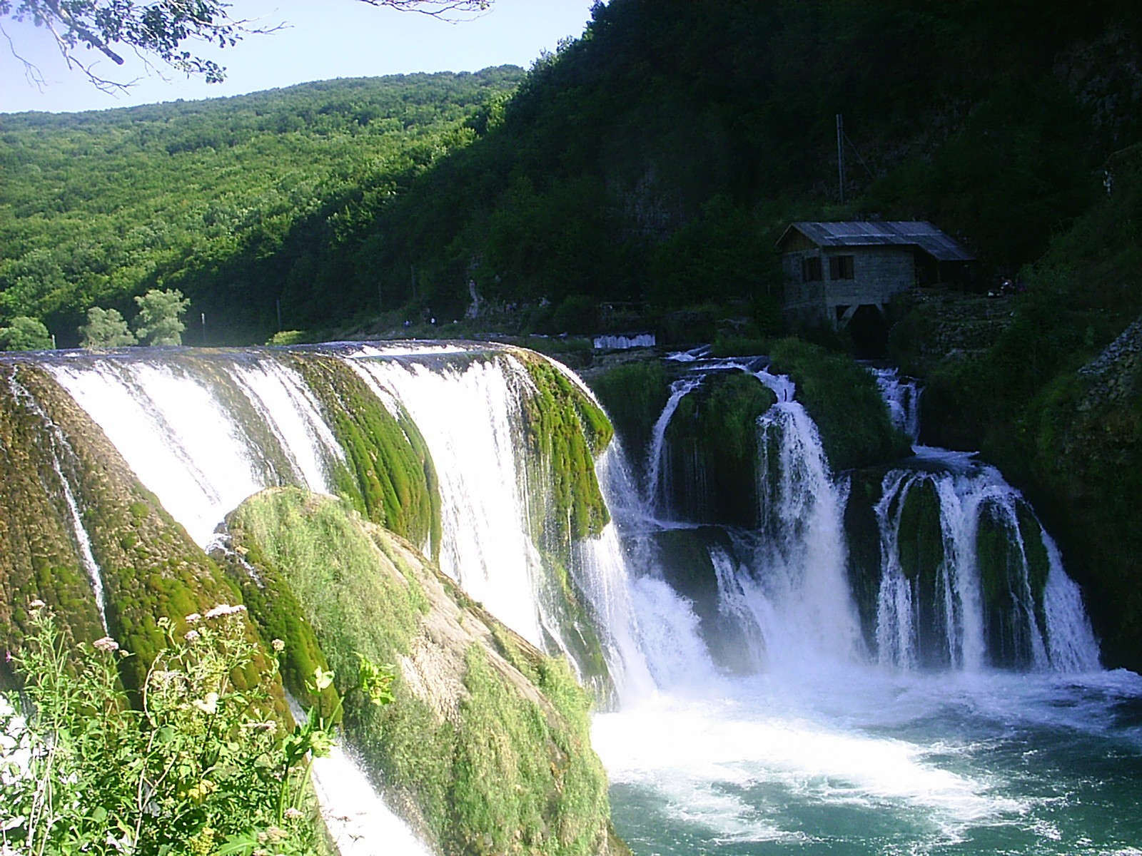 Štrbački buk waterfall at Una River, BiH